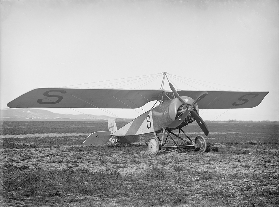 Aeroplane marked 'S' at Enoch Thulins air training centre.